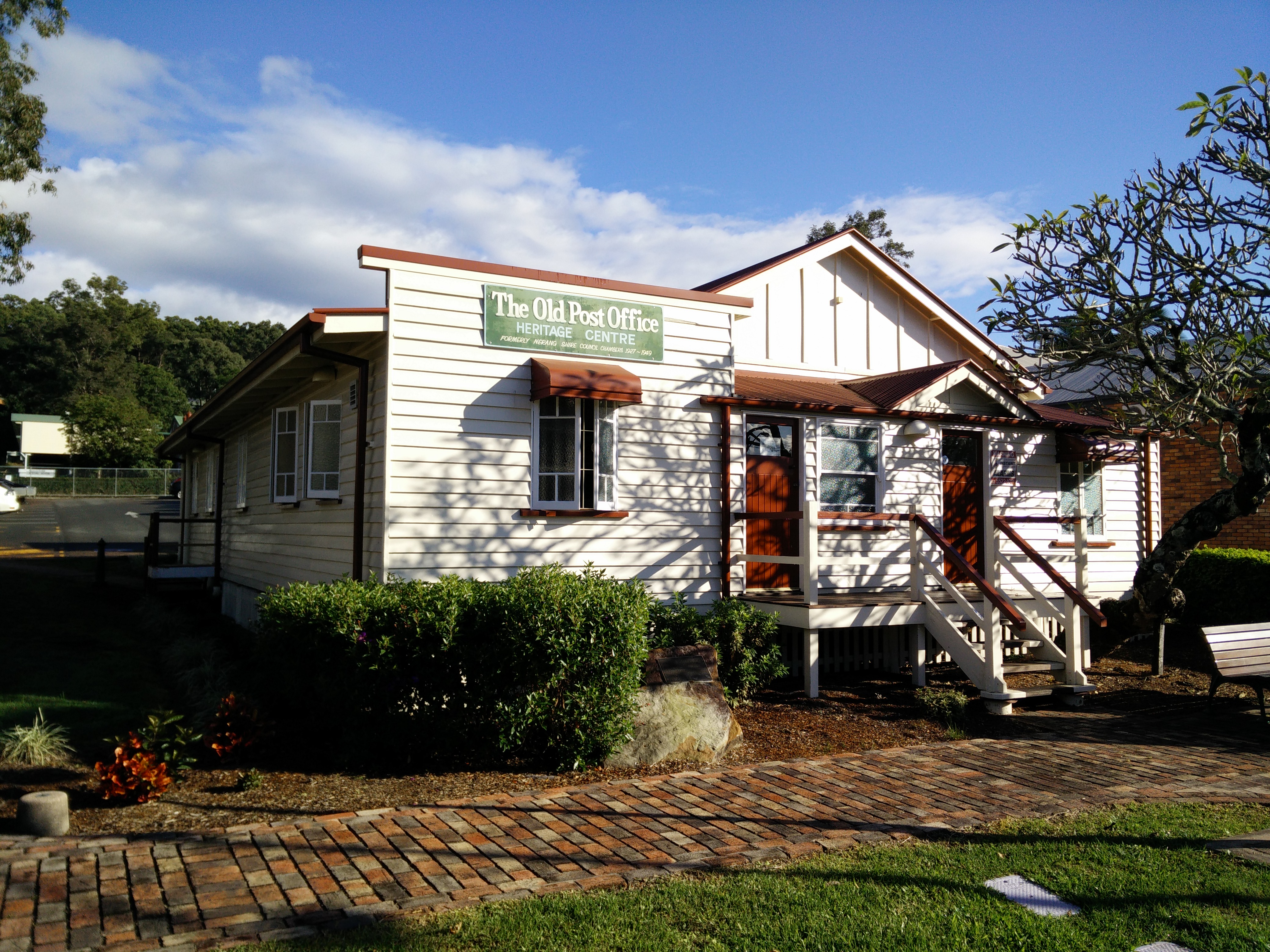 Photo of the Mudgeeraba Old Post Office (formerly Nerang Shire Council Building)